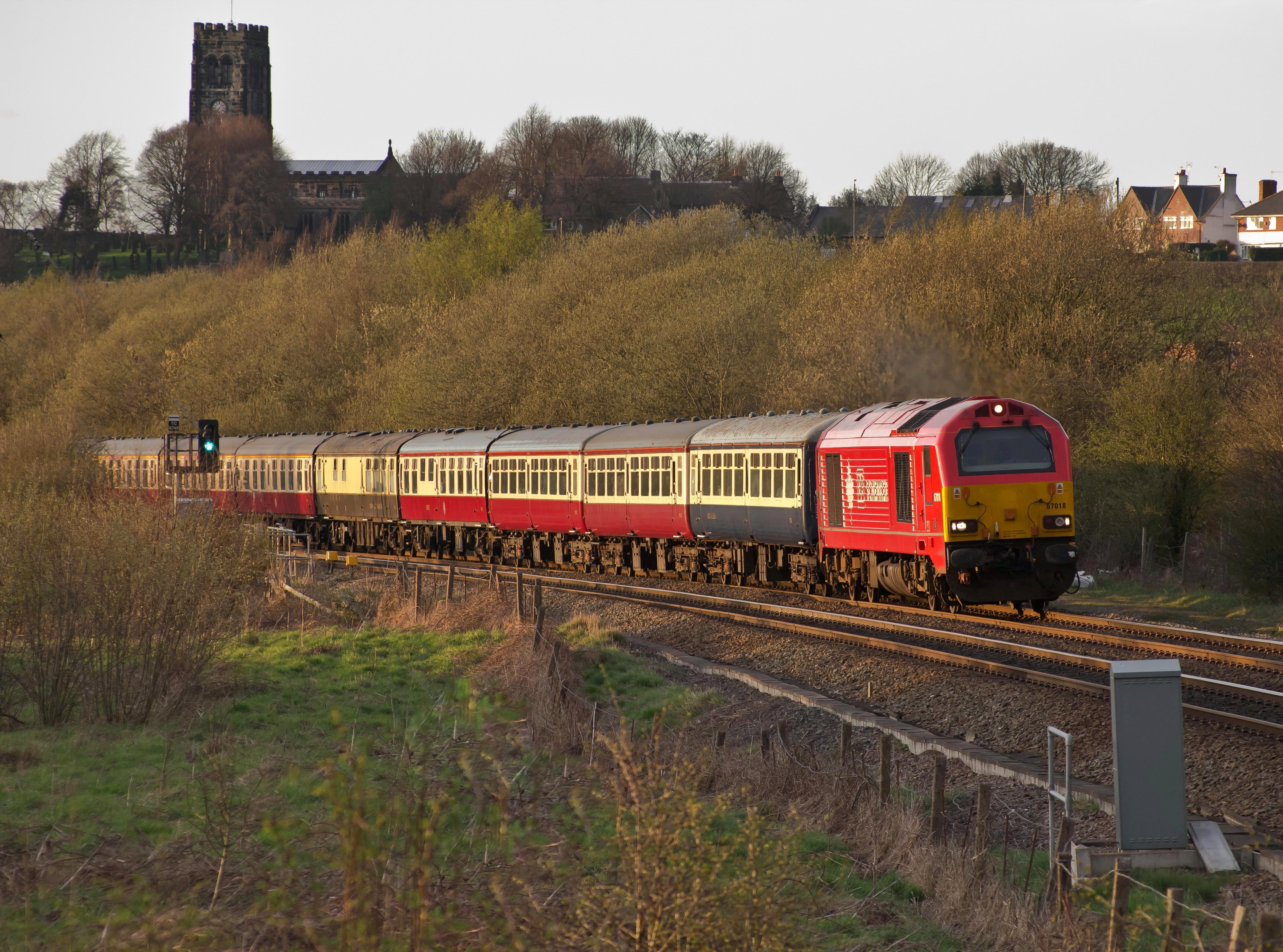 67018 "Keith Heller" passes Claycross working 1Z34 Stoke on Trent - Finsbury Park return charter. "Pimp my Skip"